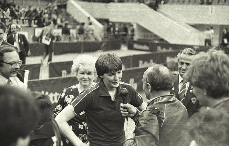 Valentina Popova at European Championship-1984 in Moscow